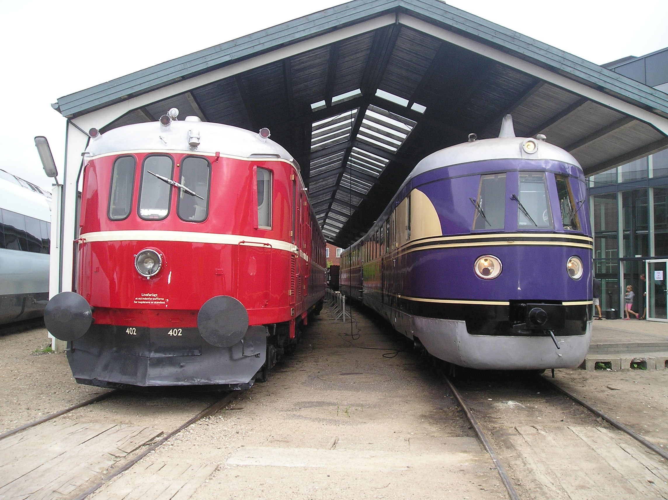 Danish multiple unit DSB Litra MS and german class 137 on Danmarks Jernbanemuseum.